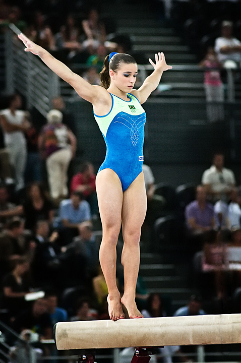 Jade Barbosa (b. 1991) at the Mediterraneo Gym Cup July 5th 2008 in Rome